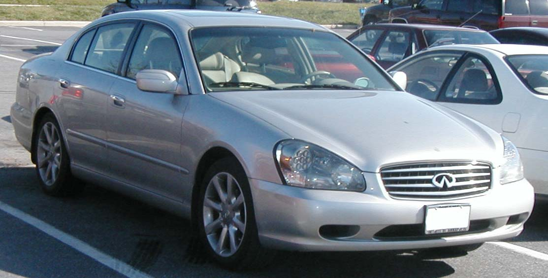 2002-2004 Infiniti Q45 photographed in USA.